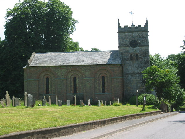 St Everilda's Church, Everingham, East Riding of Yorkshire, England.One of only three churches dedicated to this saint - one of the others is in the same village.